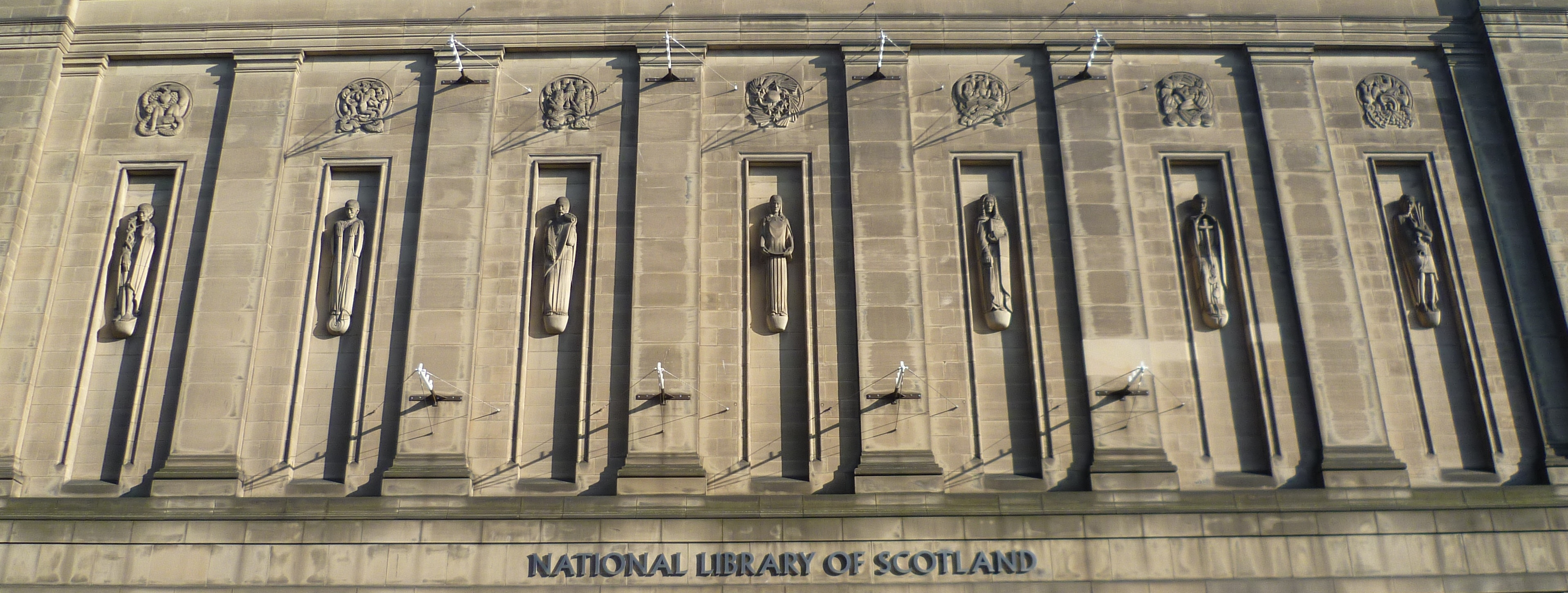 Hew Lorimer figures on the facade of the National Library of Scotland, designed 1934-6, steel frame erected 1939, completed 1950-55